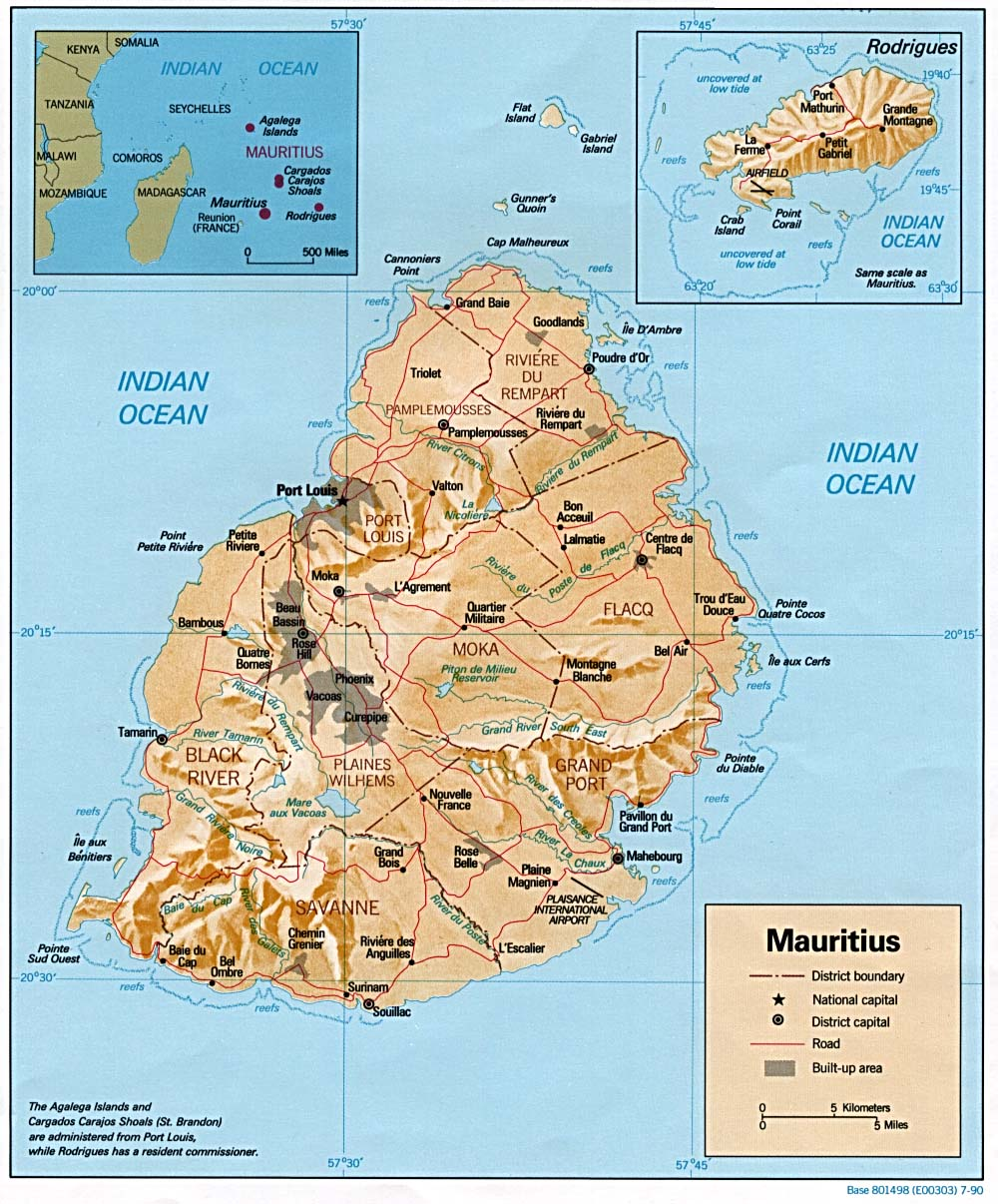 Relief map of Mauritius, with inset of Rodrigues Island. US Central Intelligence Agency, 1990.